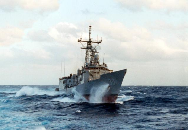 The U.S. Navy guided missile frigate USS Reid (FFG-30) approaching the supply ship USS Ranier (AOE-7).